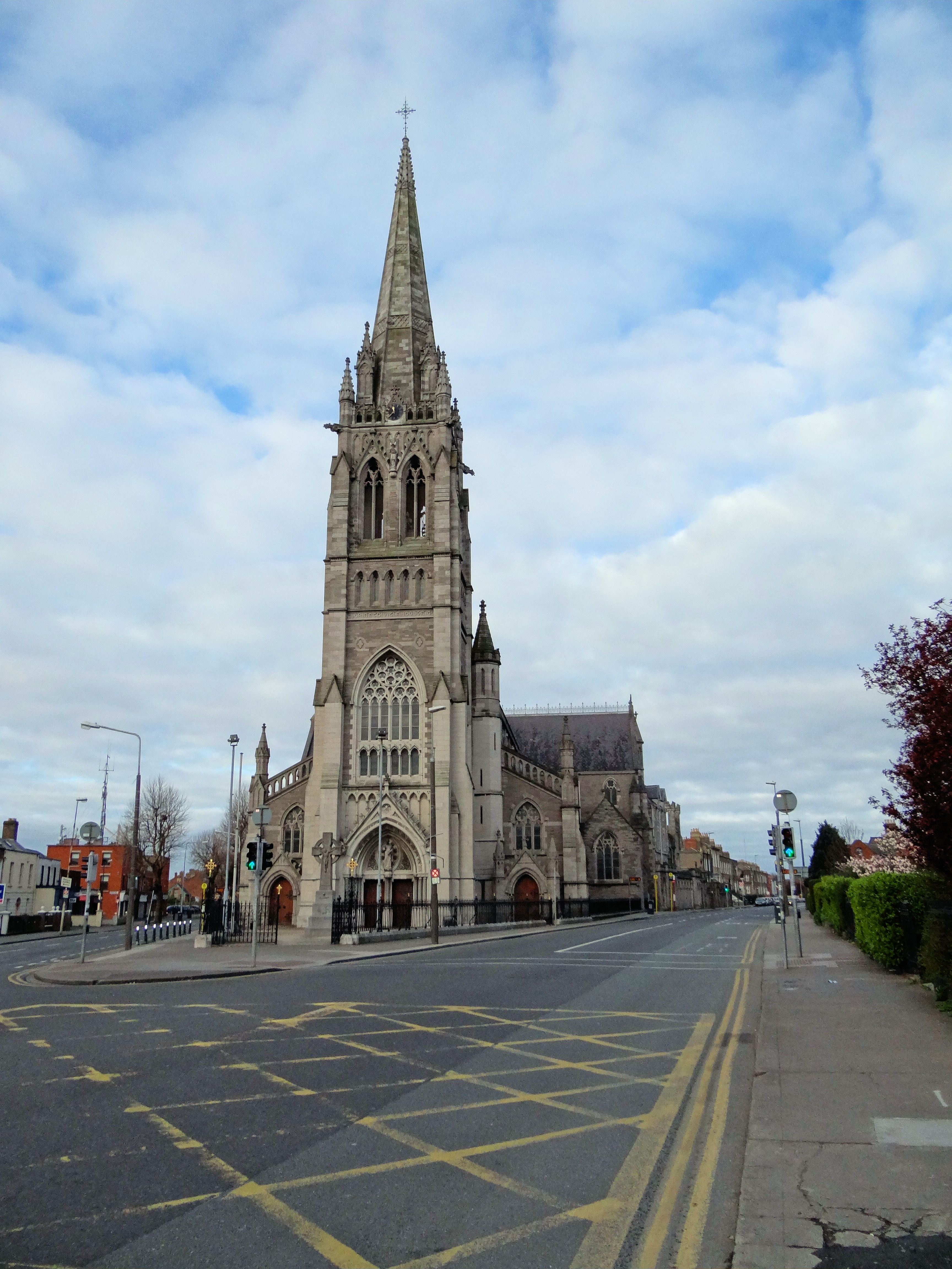 St. Peter's Church in Phibsborough, Dublin, Ireland, photographed from the east, on Cabra Road.